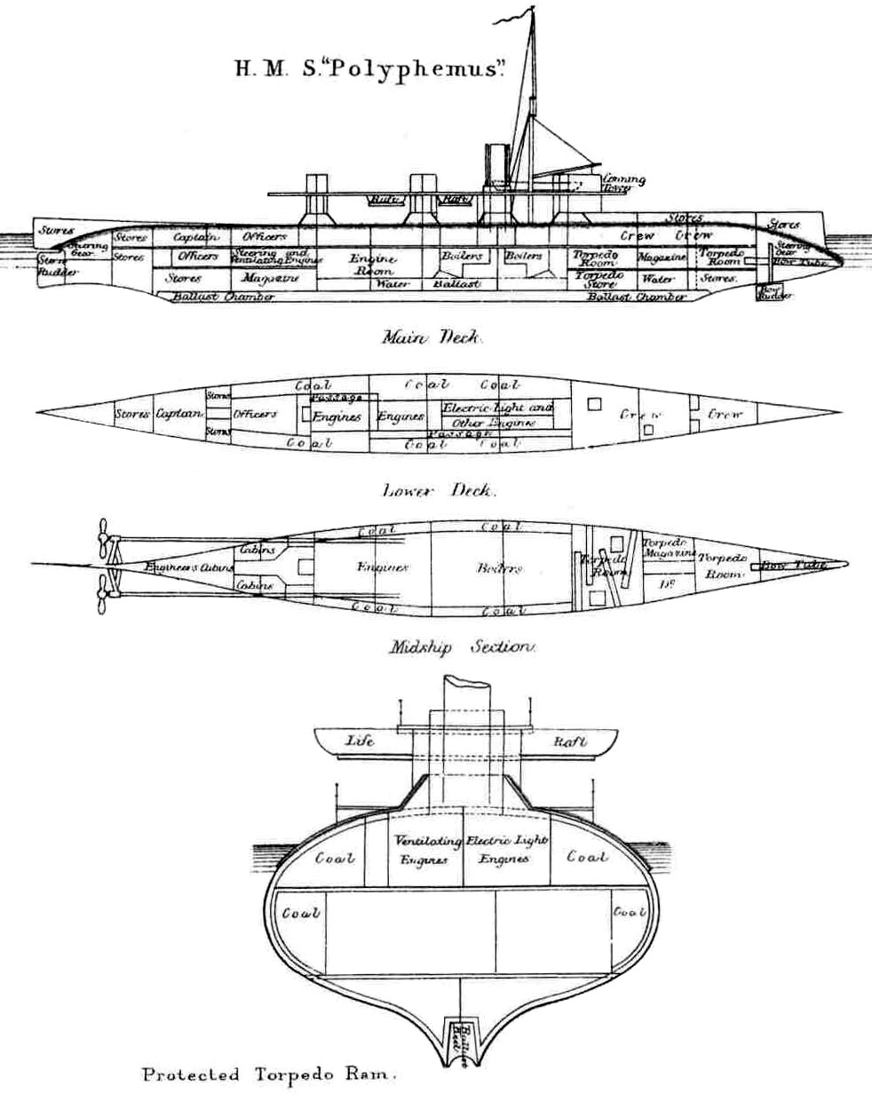 Right elevation, deck plan and hull cross-section diagrams of British torpedo ram HMS Polyphemus.